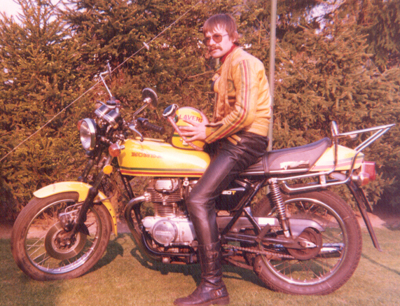 Honda CJ 360 T 1976